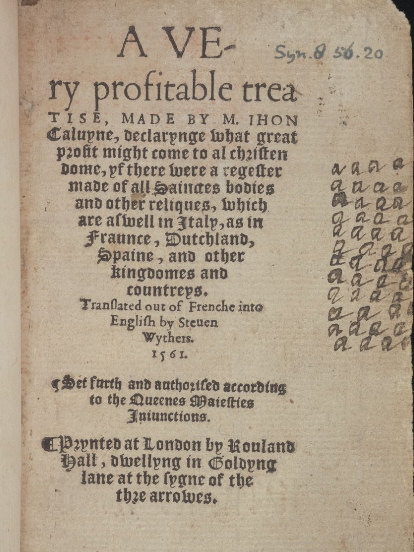 Front page of «A very profitable treatise made by M. Ihon Caluyne, declarynge what great profit might come to al christendome, yf there were a regester made of all sainctes bodies and other reliques, which are aswell in Italy, as in Fraunce, Dutchland, Spaine, and other kingdomes and countreys». The first translation into English from the French original text «Traitté des reliques» was made in 1561; its author is Stephen Wythers (London: Rowland Hall).